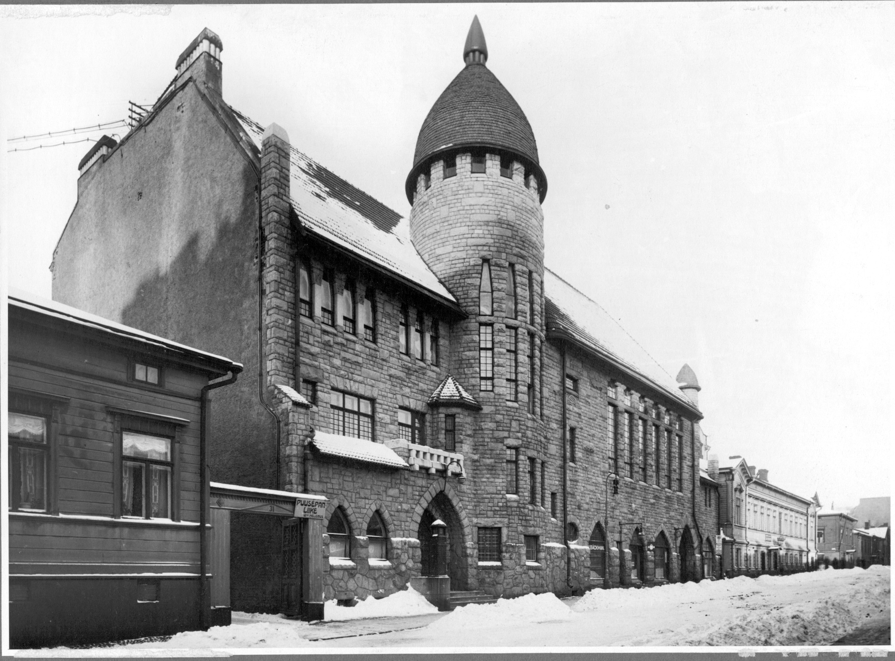 Old polytechnic student union (Helsinki University of Technology) building, Vanha Poli. Lönnrotinkatu 29. Built in 1903.